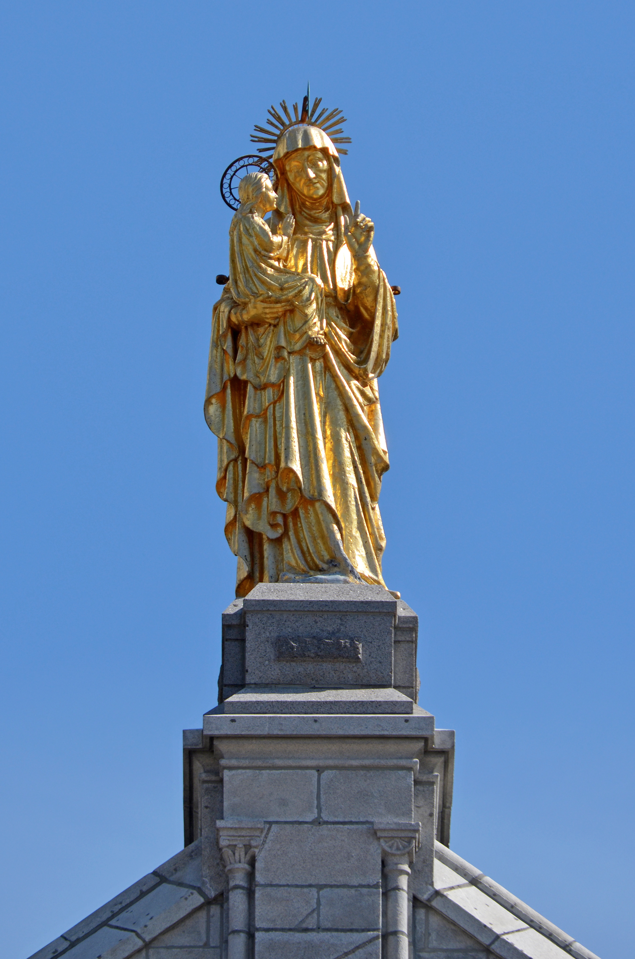 Statue of Saint-Anne (by Matthias Zens) on the outside of the Basilica of Sainte-Anne-de-Beaupré, near Quebec City.